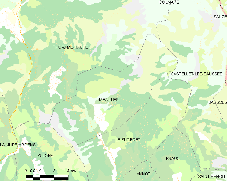 Map commune FR insee code 04115.png Légende